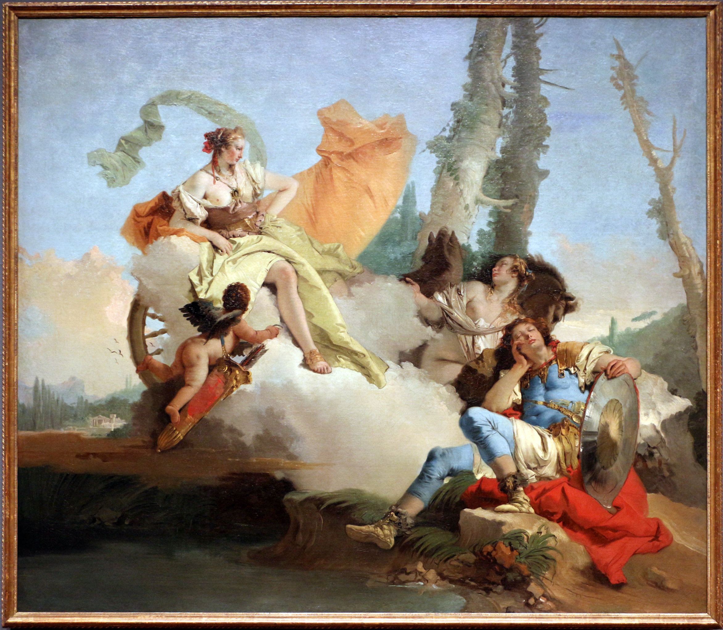 Paintings by Giovanni Battista Tiepolo in the Art Institute of Chicago